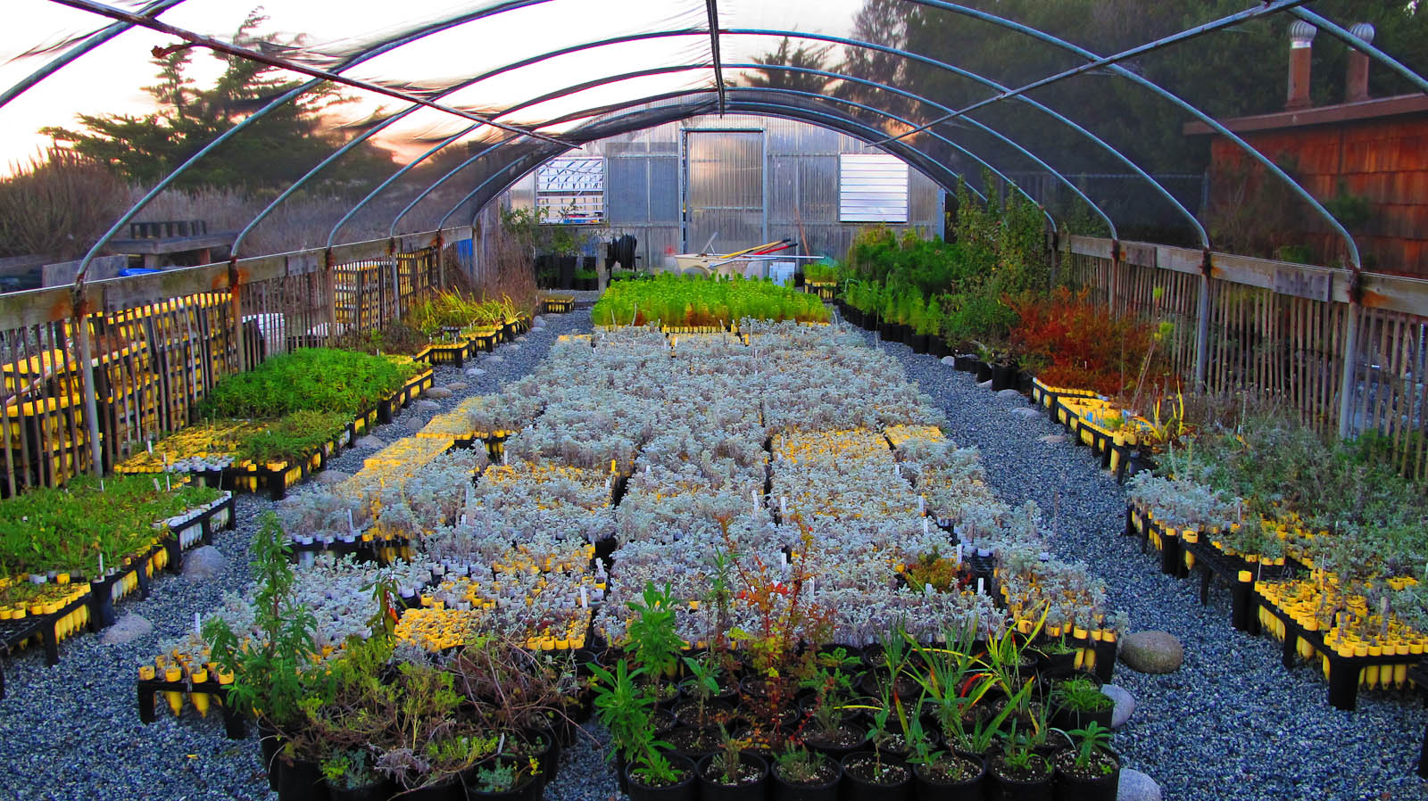 Native Plant Nursery